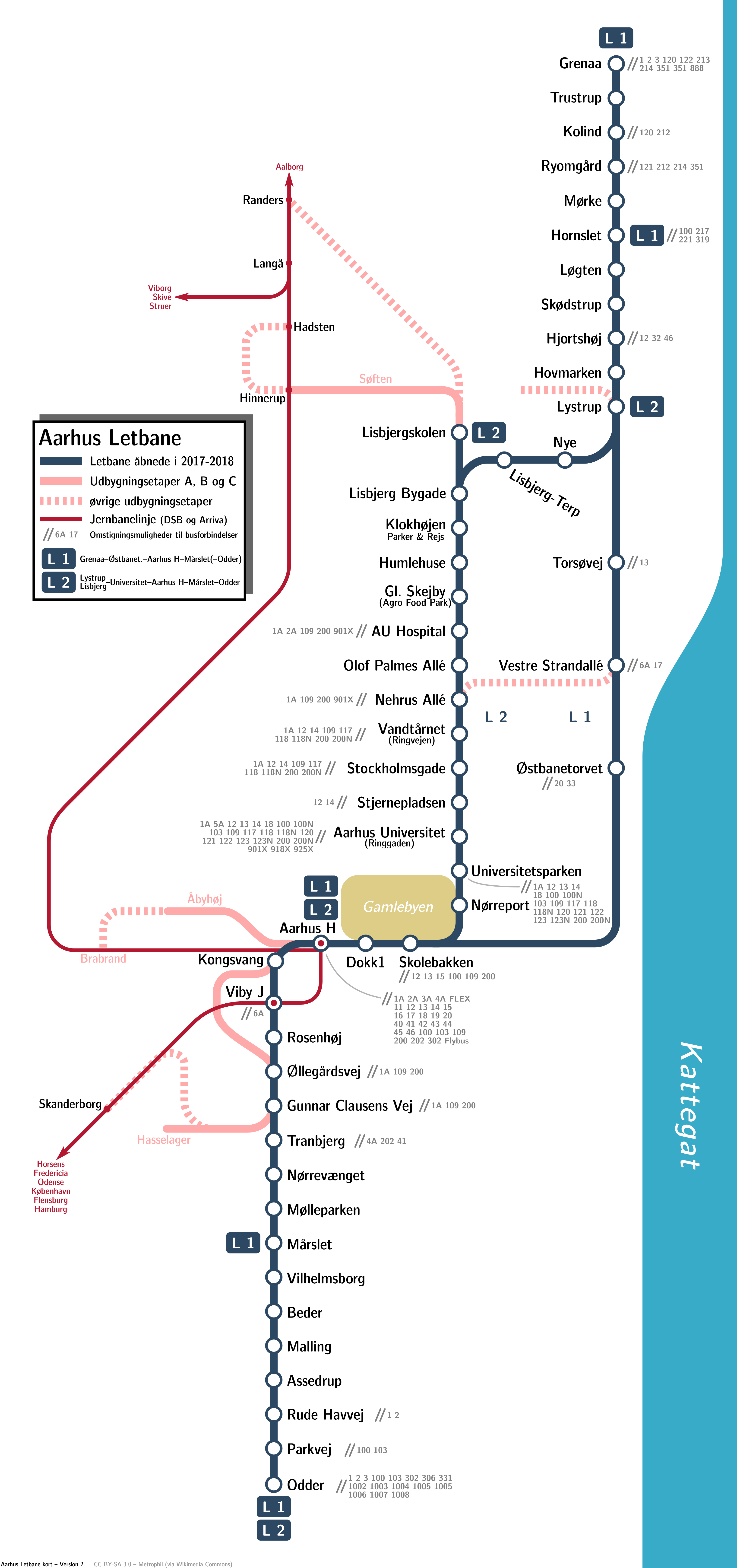 Map of Aarhus Letbane system, to be opened in 2017. Sources: Line map by Midttrafik, 2017 Samspil 2025 – Vision for en sammenhængende og bæredygtig mobilitet i Østjylland by Letbanen I/S, 2014